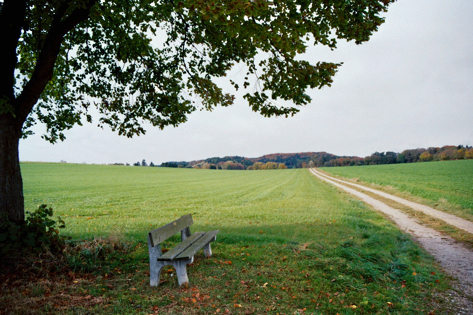 Landscape near Immendorf, part of Pöttmes, District Aichach-Friedberg, Bavaria, Germany.